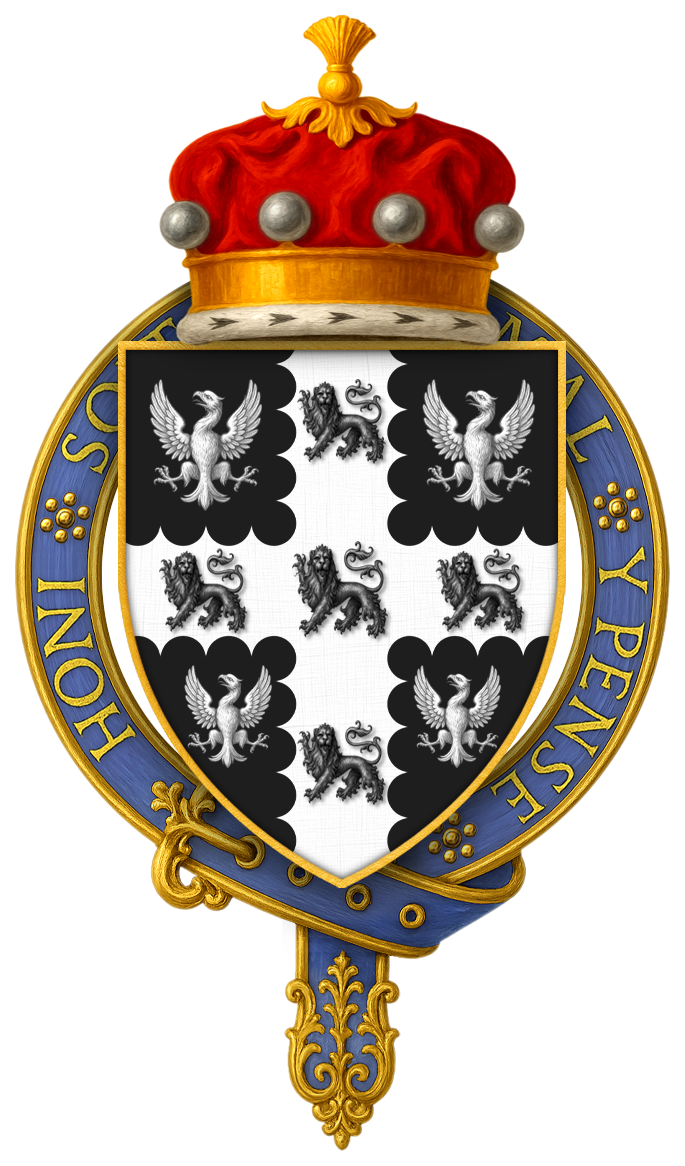 Coat of arms of Sir William Paget, 1st Baron Paget, KG